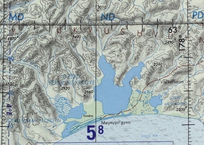 Operational Navigation chart section of Lake Pekulney, Chukotka Autonomous Okrug, Russia